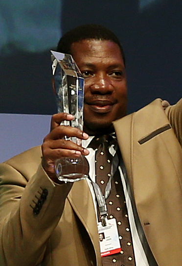 2014 UN Public Service Forum, Day and Awards Cermony Improving the Delivery of Public Services Winner First Place South Africa June 26, 2014 Kintex, Goyang-si, Gyeonggi-do Ministry of Culture, Sports and Tourism Korean Culture and Information Service ( Official Photographer: Jeon Han This official Republic of Korea photograph is licensed as free content, so while restrictions such as personality or privacy rights may apply, in general, manipulations are allowed. If you want a photograph without a watermark, you may ask via Flickr e-mail. 2014 UN 공공행정 포럼 및 시상식 2014-06-26 경기도 고양시 킨텍스 문화체육관광부 해외문화홍보원 코리아넷 전한